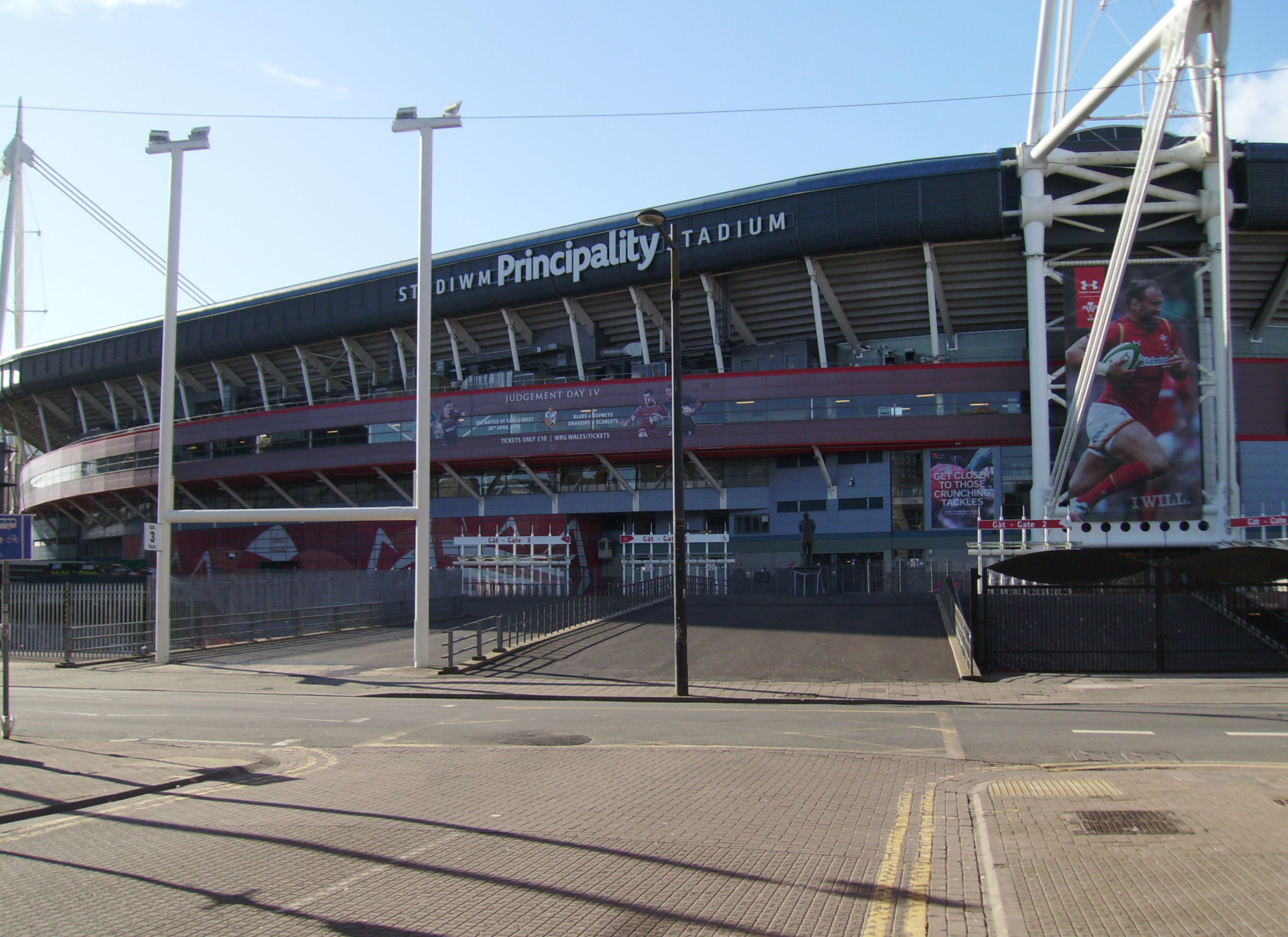 Principality Stadium, Westgate Street, Cardiff, Wales